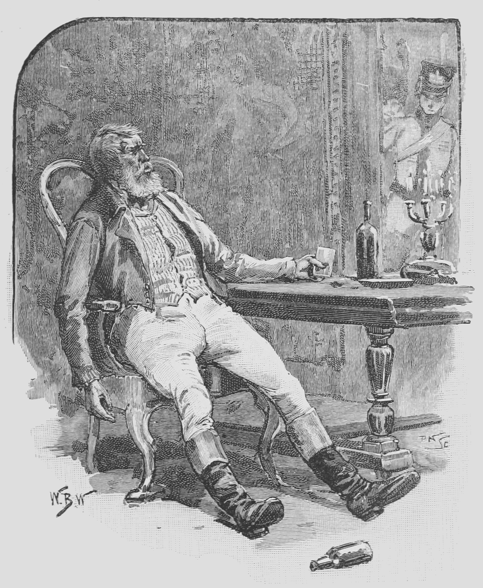 Plate of The Exploits of Brigadier Gerard